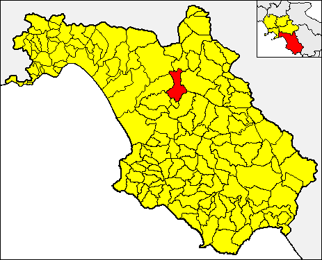 Locator map of the municipality of Postiglione (red) within the Province of Salerno